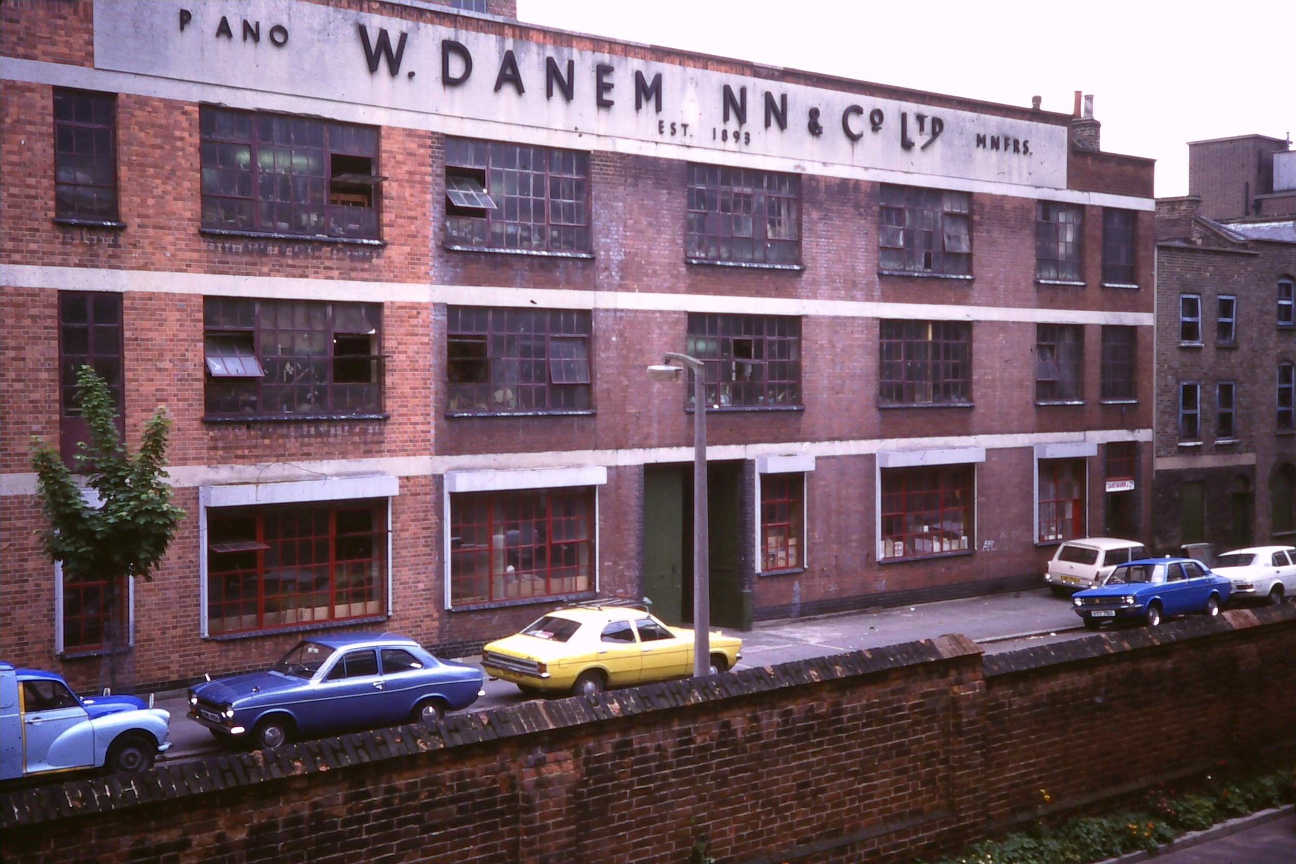 Picture taken in 1979